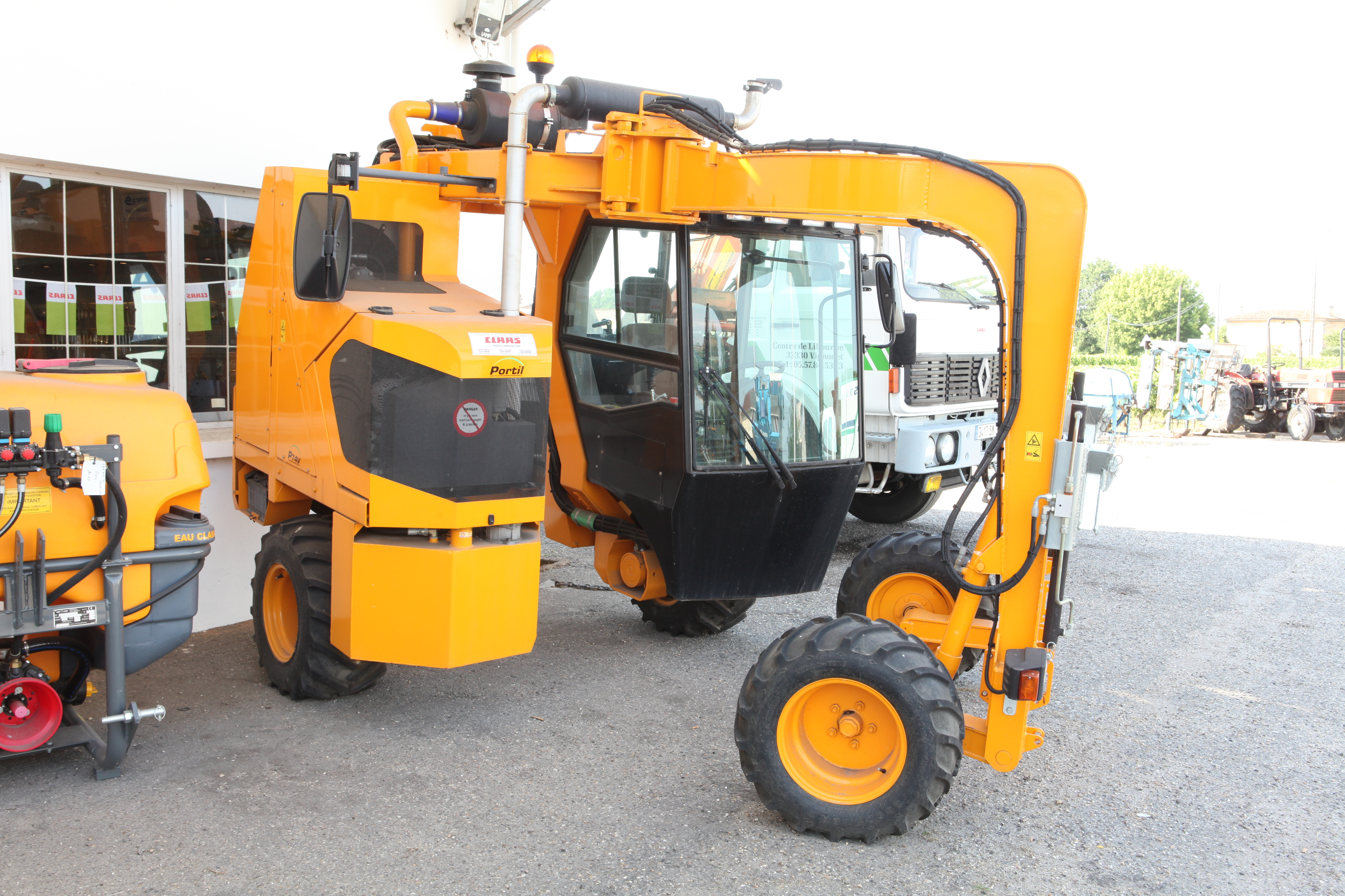 Straddle tractor Grégoire PORTIL P 74V.